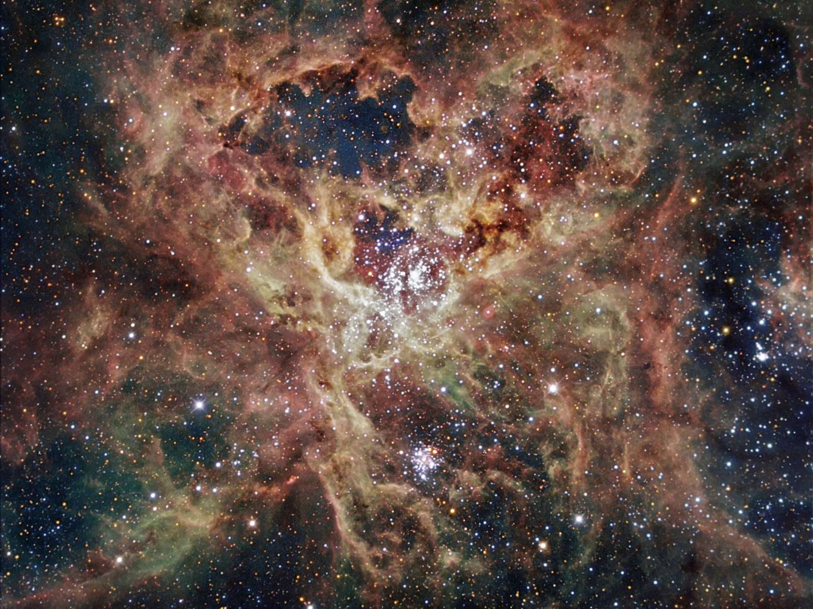 NGC 2070 by ESO